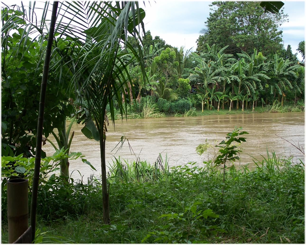 Davao River in Davao City, Mindanao.